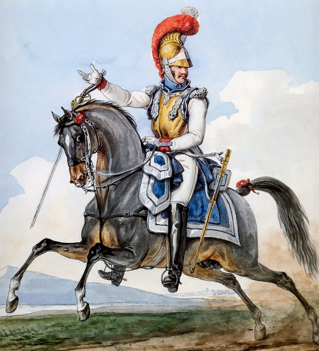 1st Regiment of Carabiniers. Part of a series chronicling the uniforms of Napoleon's Grande Armée.